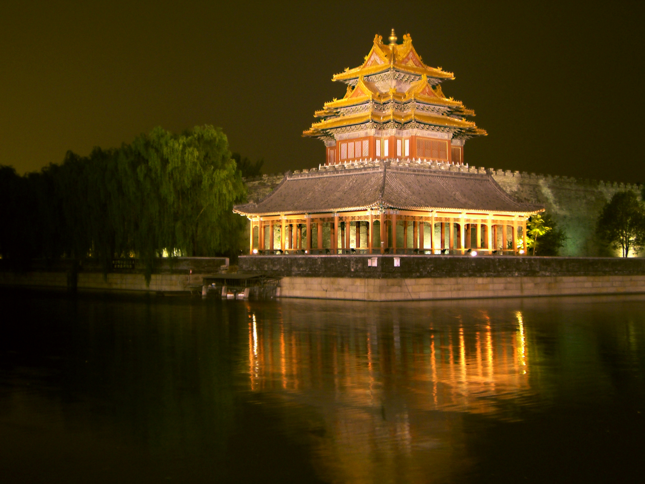 outside the Forbidden City